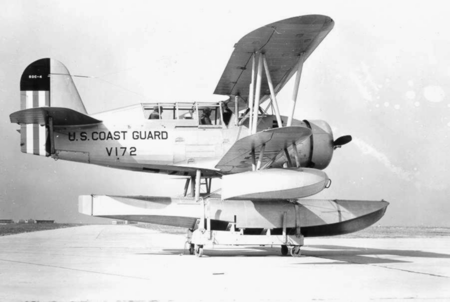 The U.S. Coast Guard acquired the final three SOC-3 Seagulls produced by Curtiss in 1938 and these were designated as SOC-4s. They were assigned the USCG call numbers V171, V172, and V173 (BuNo 48243, 48244, 48245, respectively). All three were transferred to the U.S. Navy in 1942, which redesignated them SOC-3A.